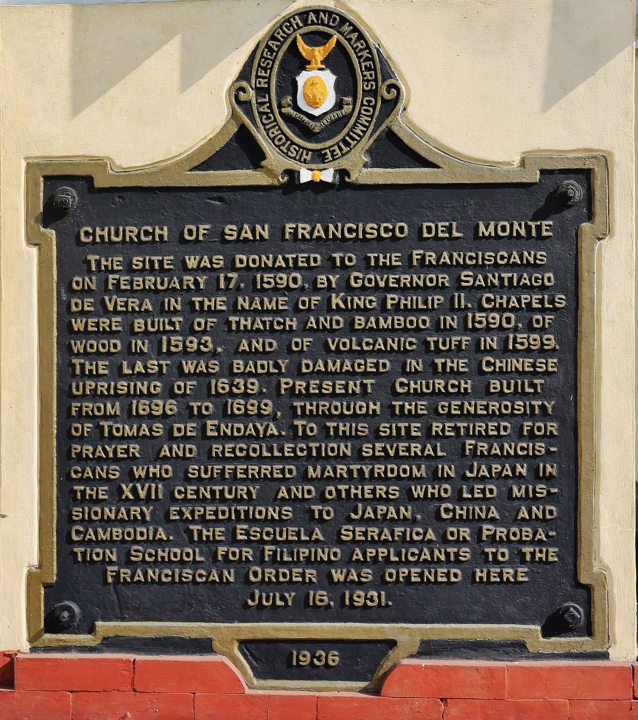 Santuario de San Pedro Bautista Marker